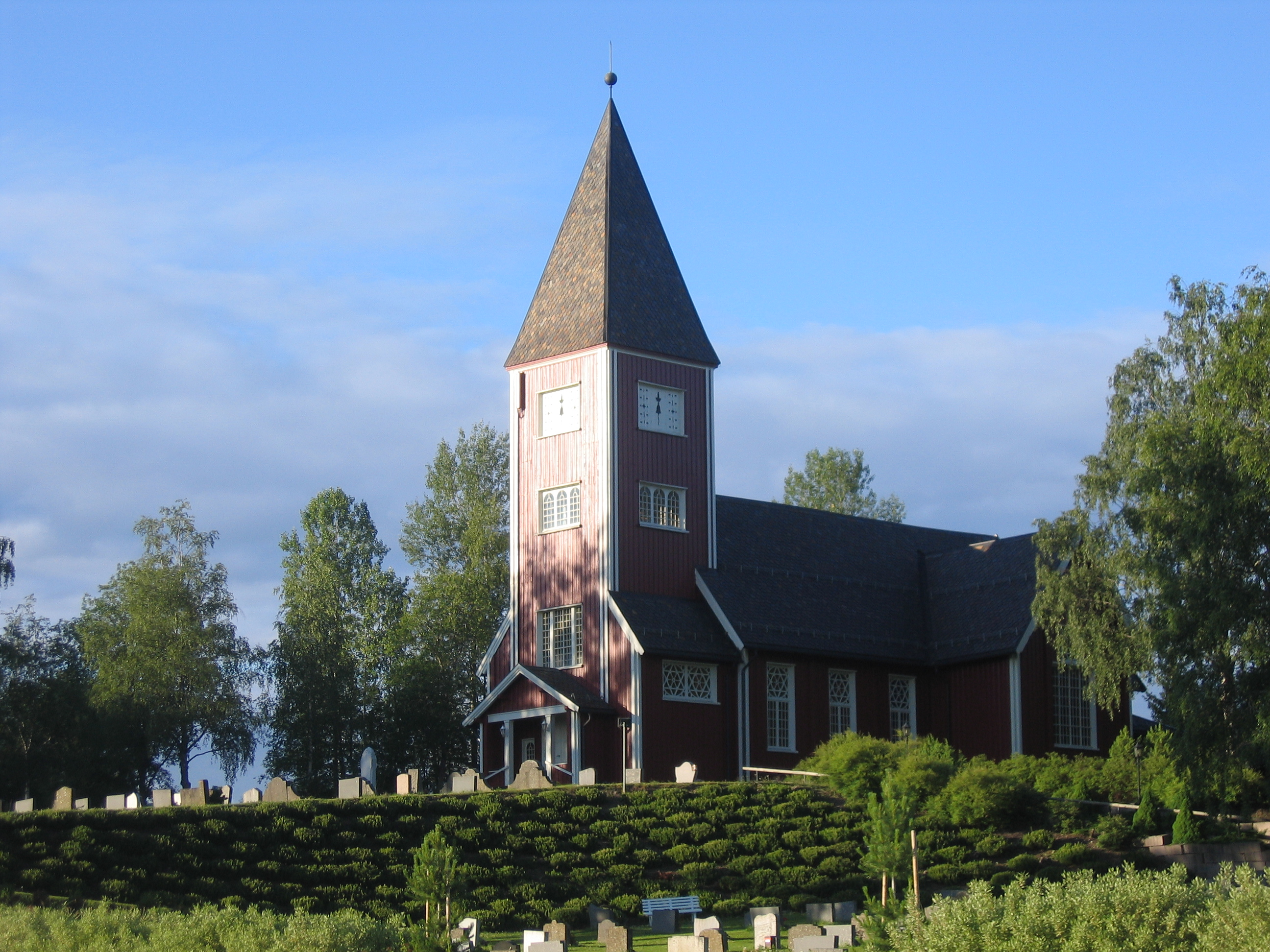 Øvre Vang church in Hamar, Hedmark, Norway.